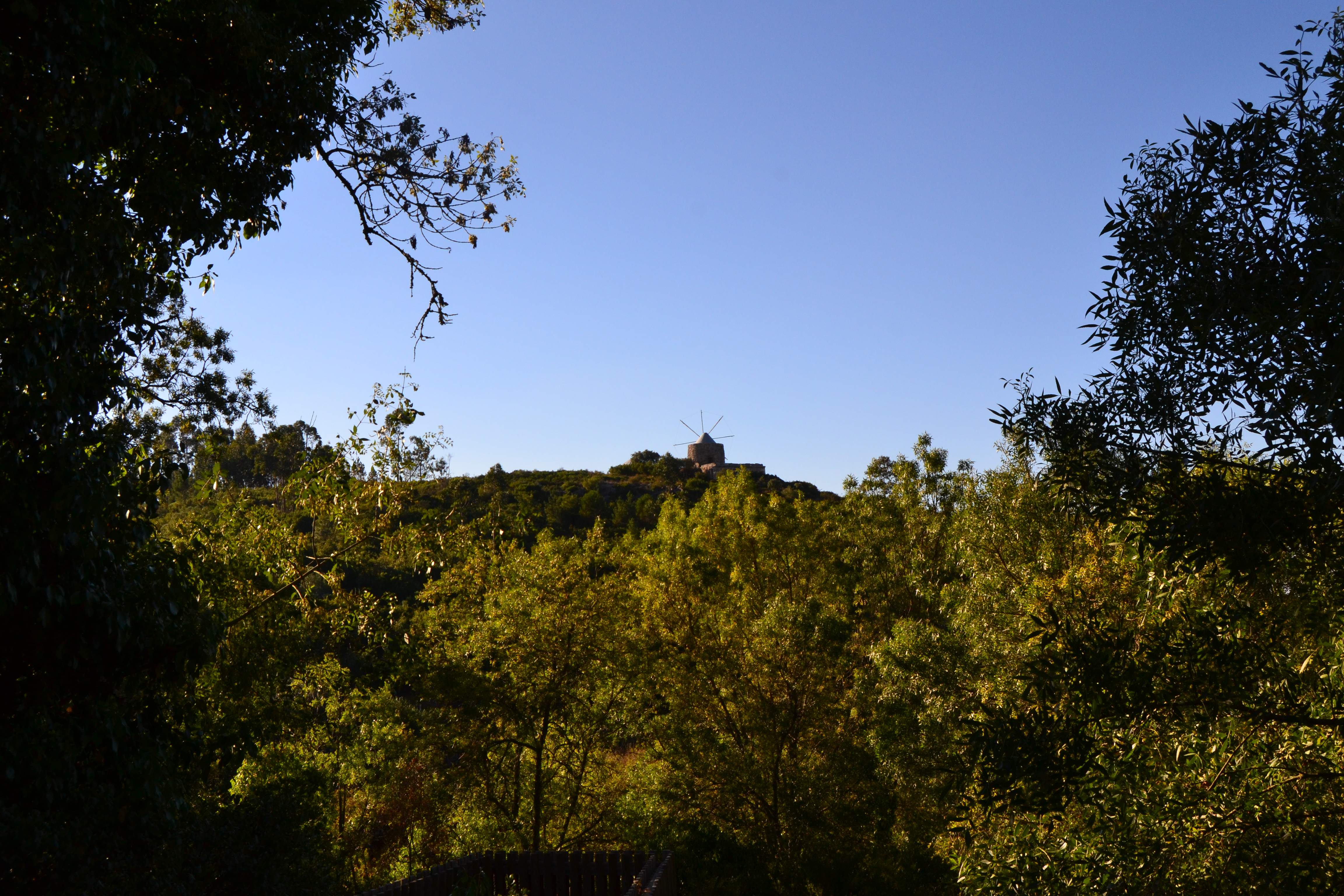 This is a photography of a Site of Community Importance in Portugal with the ID: PTCON0015. Natura2000 entry, EEA entry